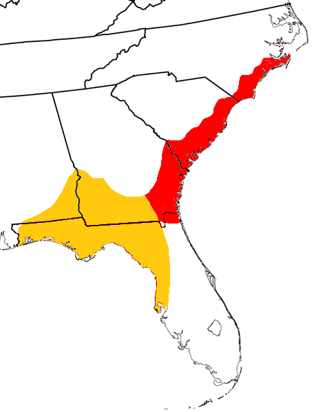 Map of Deptford culture area, showing Atlantic and Gulf regions on maps in Milanich 1993 and Milanich 1994. Modified from File:Deptford Culture.png created by User:Noles1984.